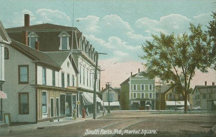 View of Market Square, South Paris, Maine